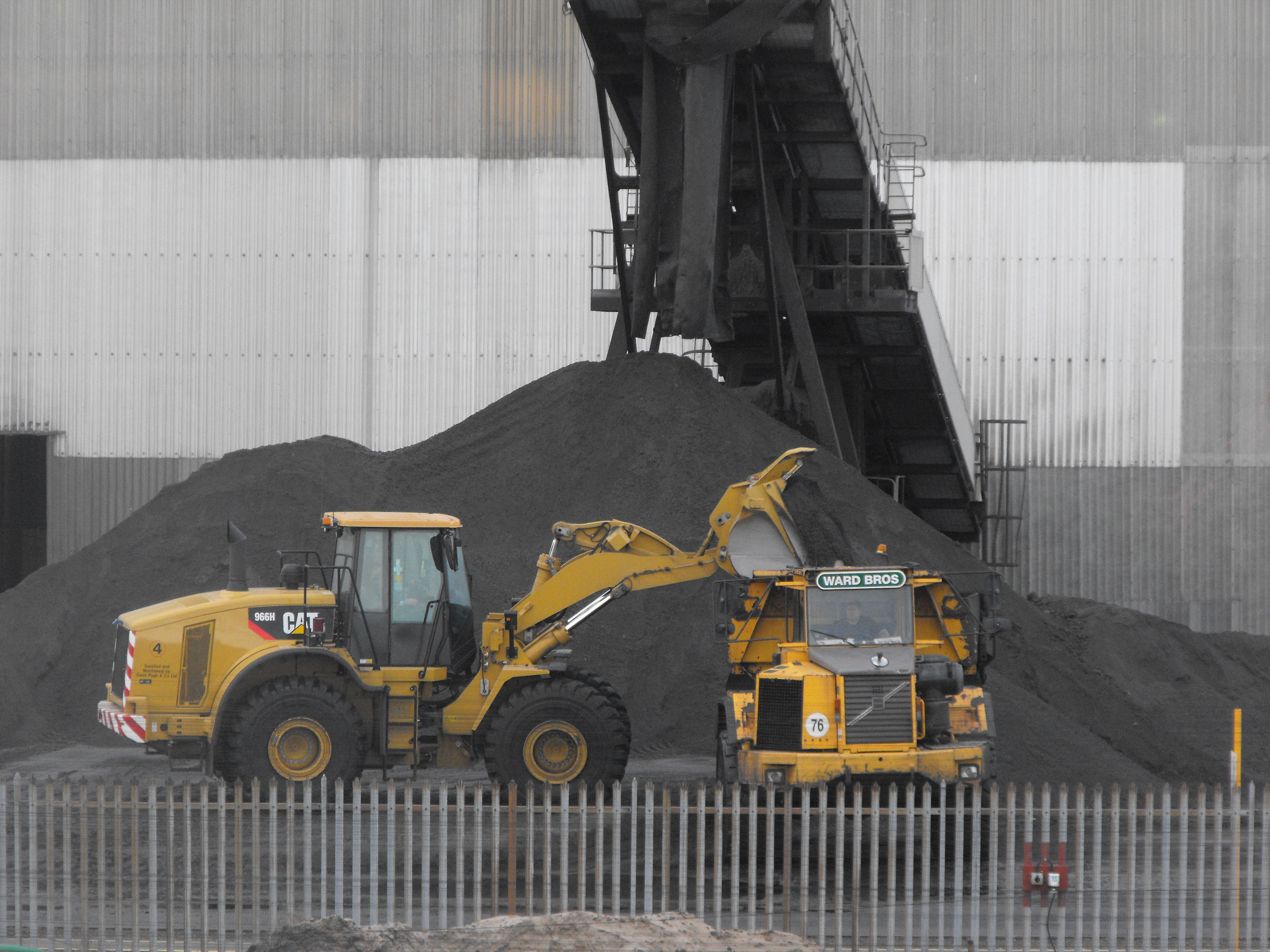 Ash being loaded onto a Volvo dumper truck at Lynemouth Power Station.